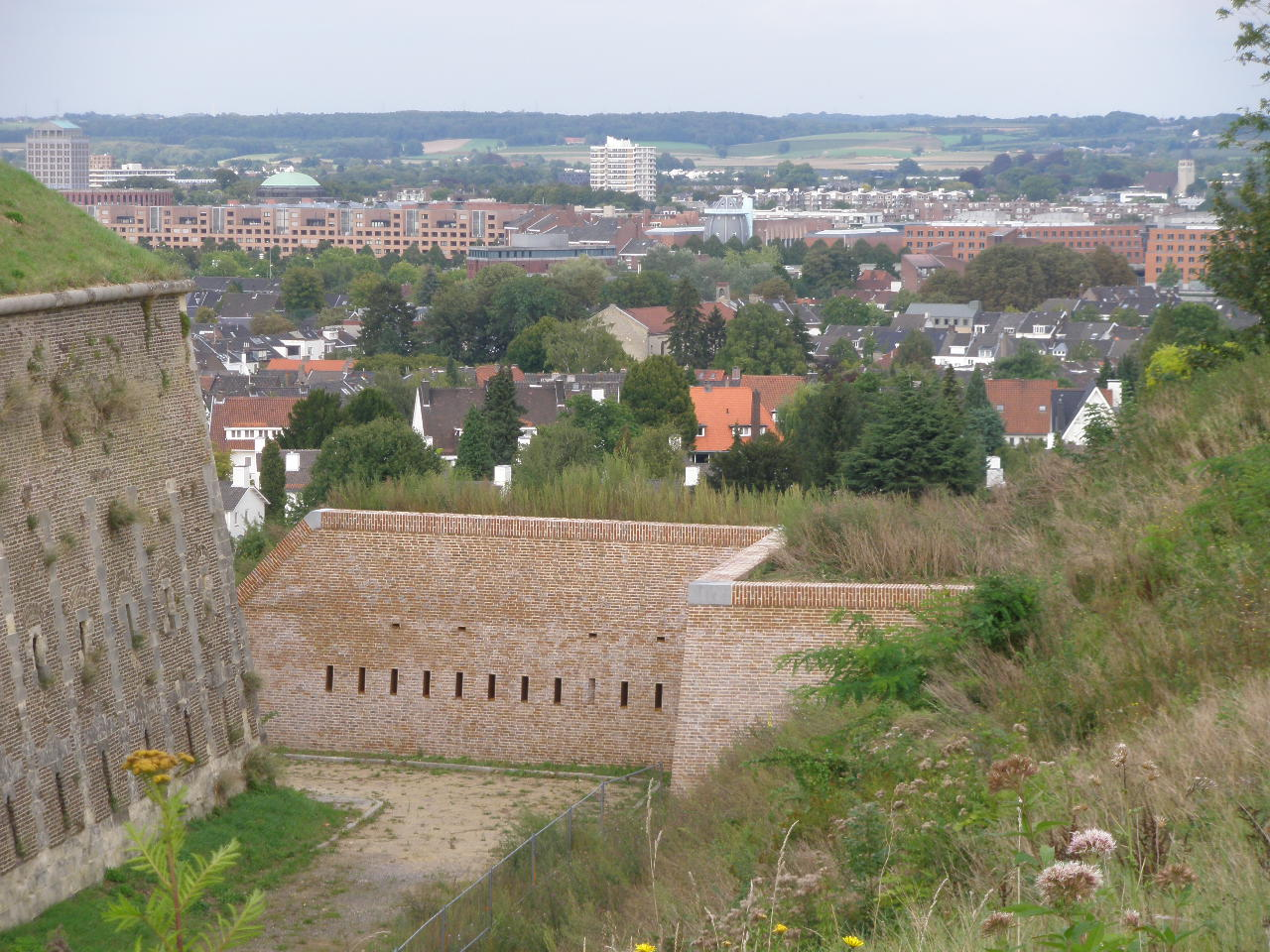 Maastricht, the Netherlands. View of the Southeastern suburbs of the city from the hill Sint-Pietersberg. In the foreground the recently restored fortress Sint Pieter.